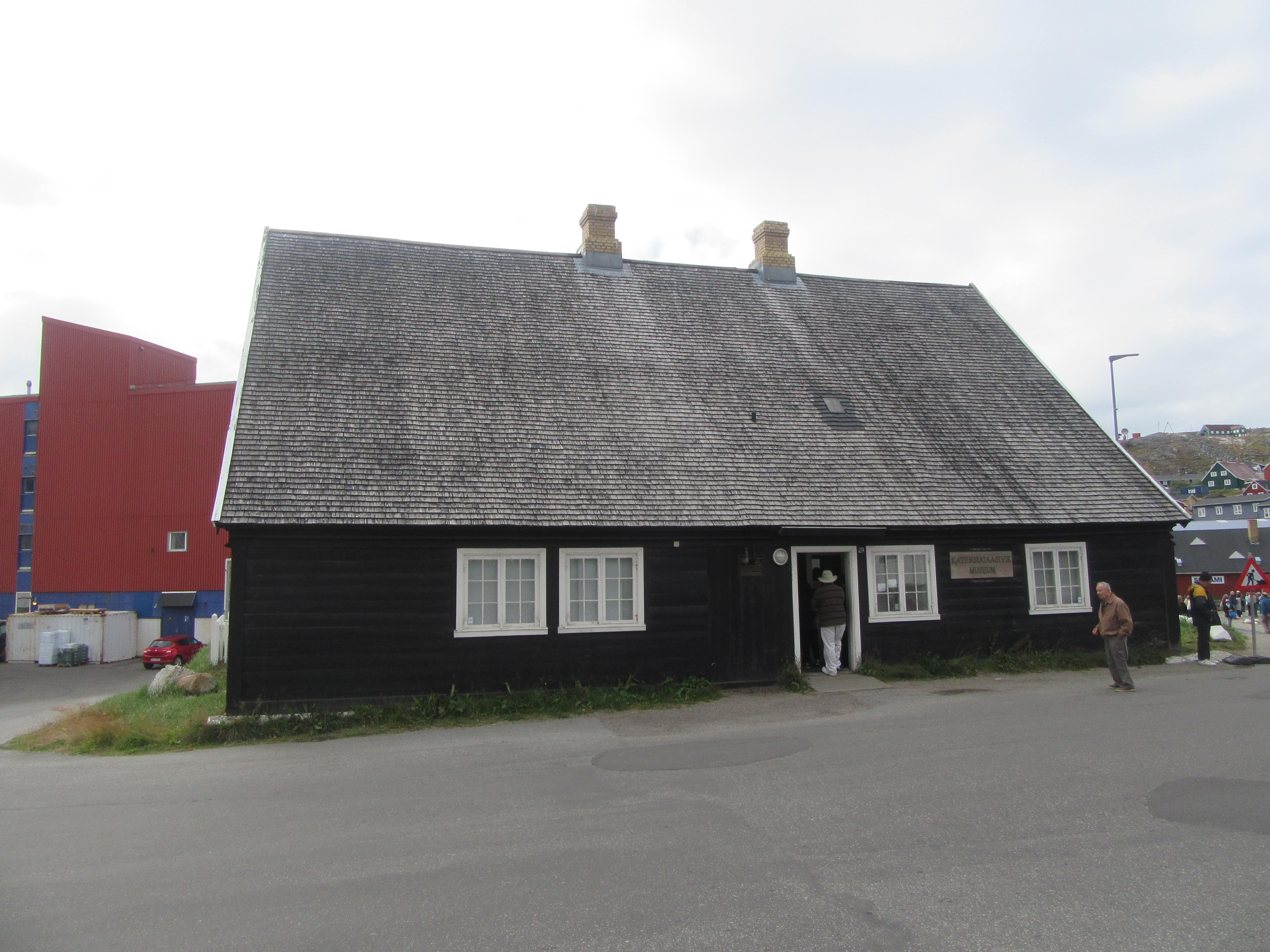 Greenland